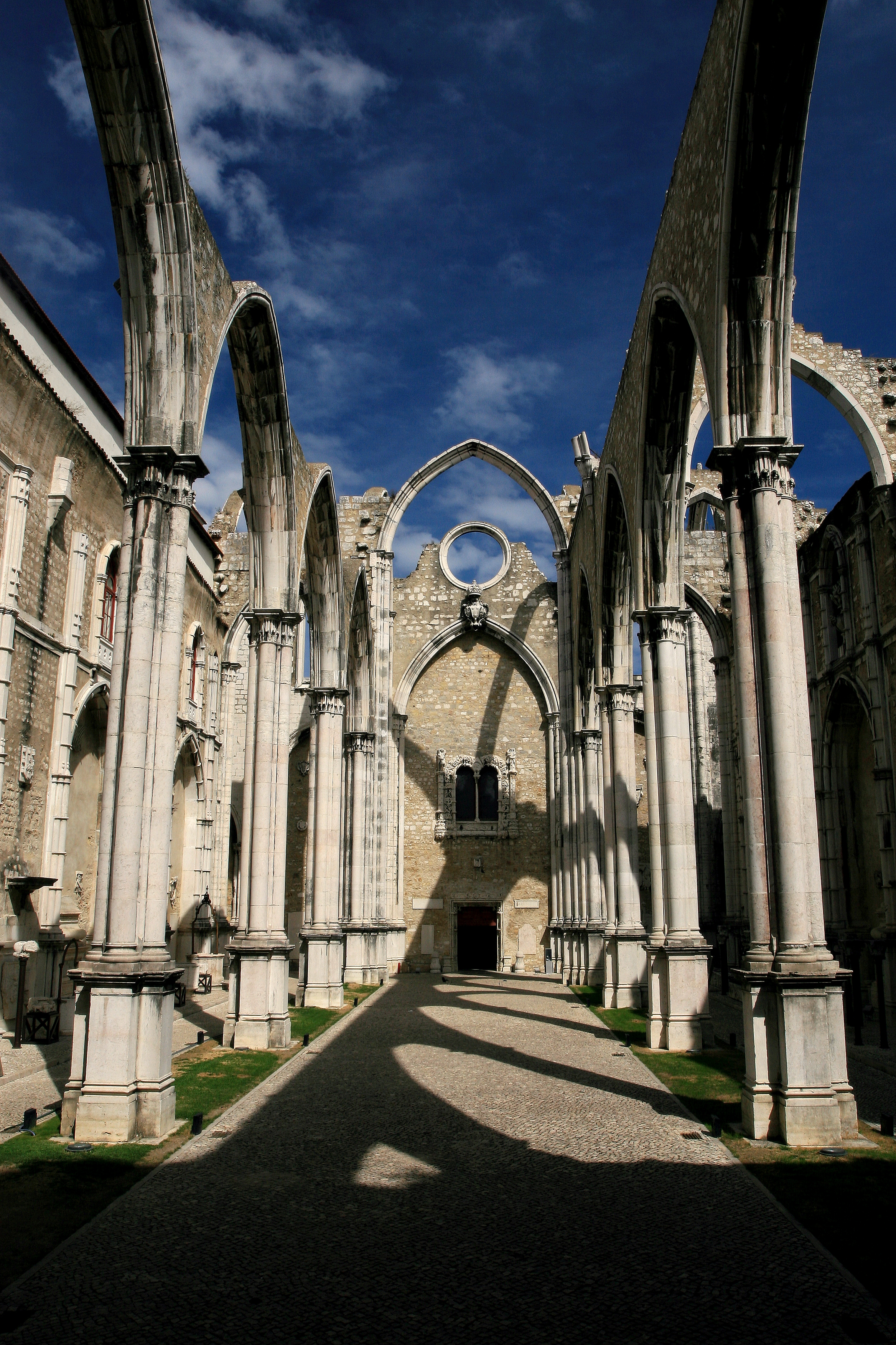 Ruins of the Carmo Convent. This file was uploaded for Wiki Loves Monuments in Portugal with the unique identifier 72498. This monument is classified as Monumento Nacional. This building is classified as Monumento Nacional.